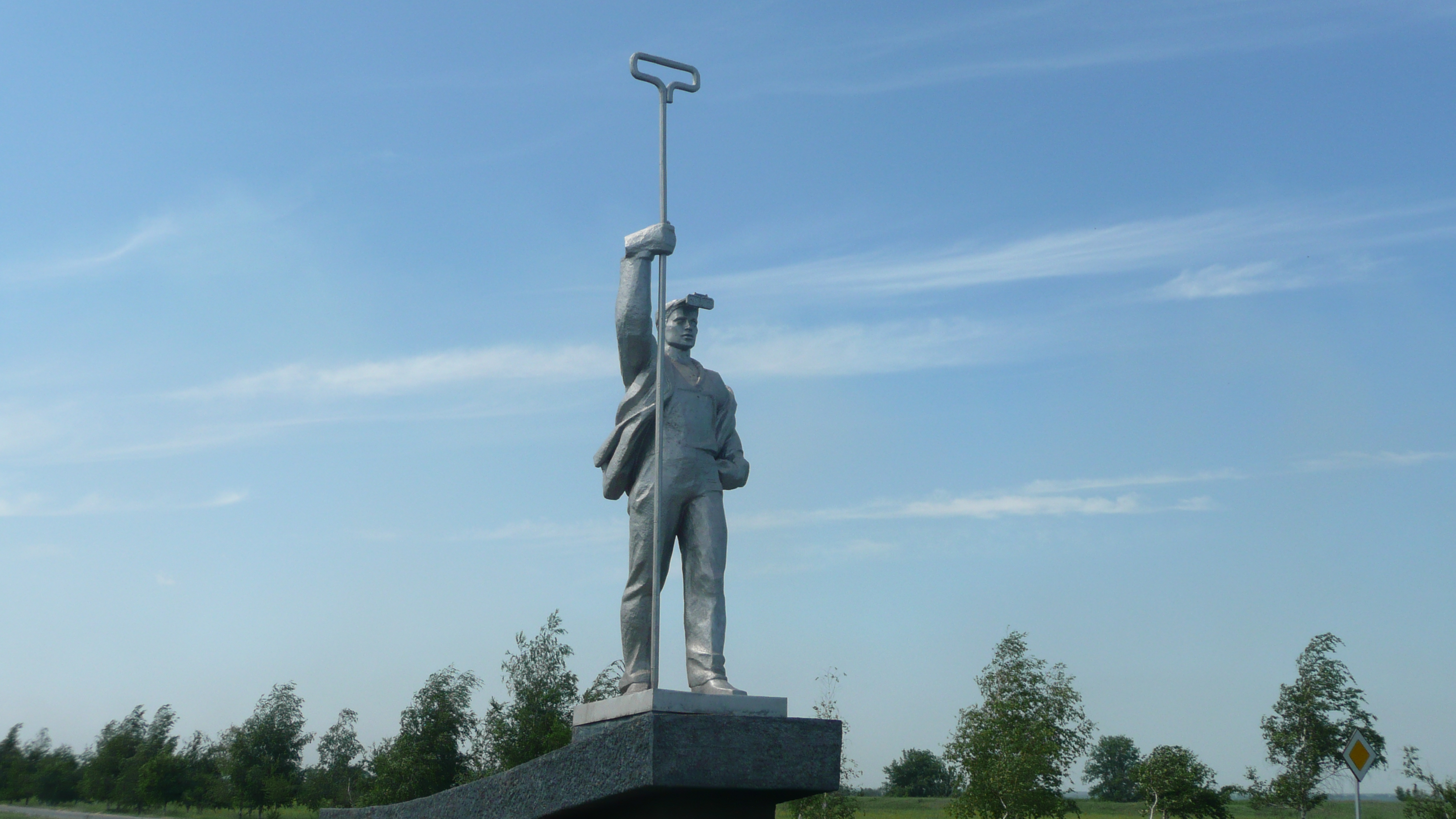 The metallurgist - Symbol of Mariupol, at the road from Donezk